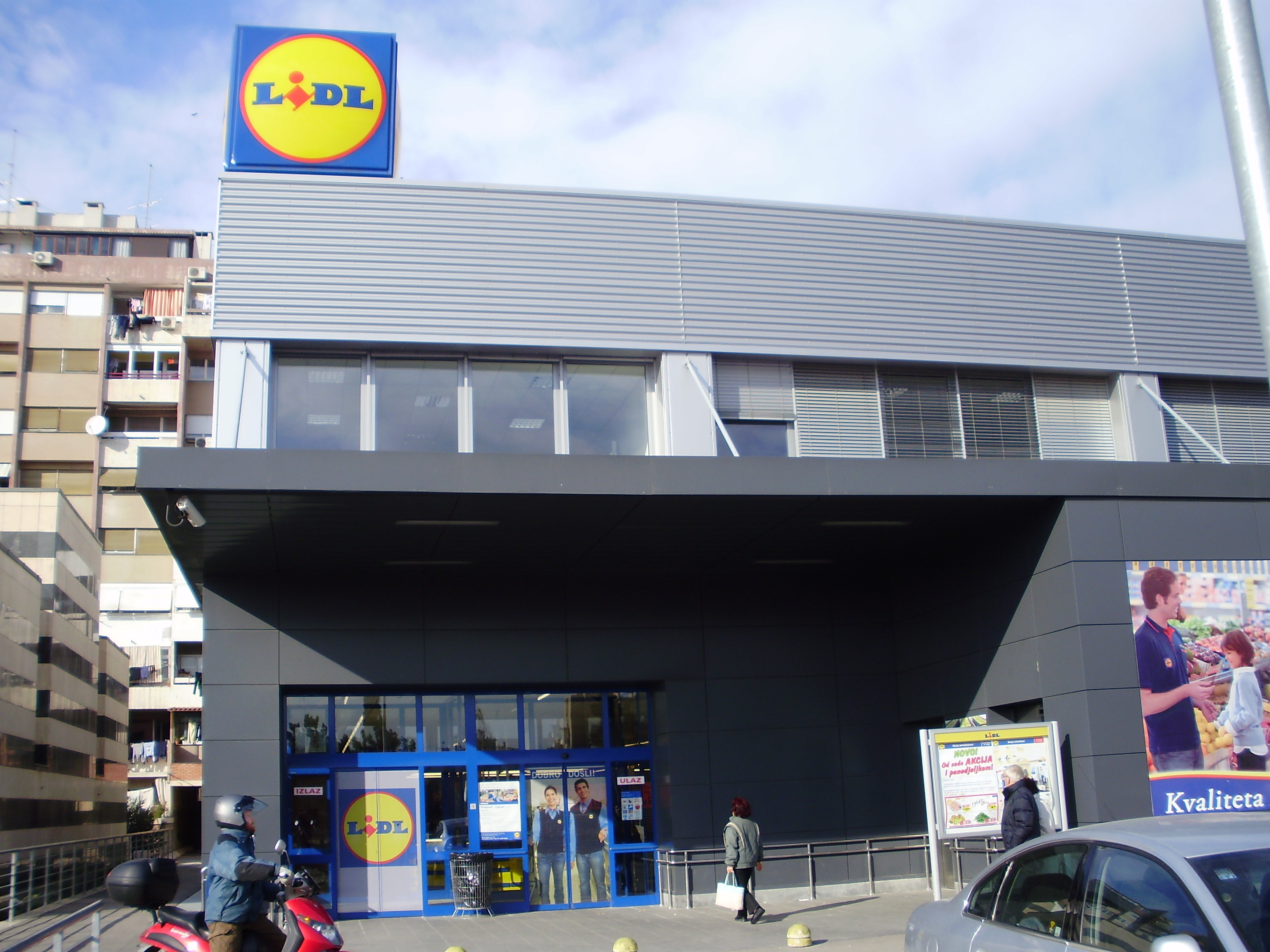 Exterior view of a Lidl supermarket in Croatia